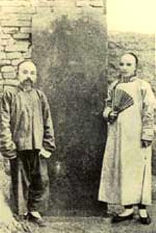 Jews in Kaifeng (China) anonymous picture, first published in: NATIONAL GEOGRAPHIC, 1907